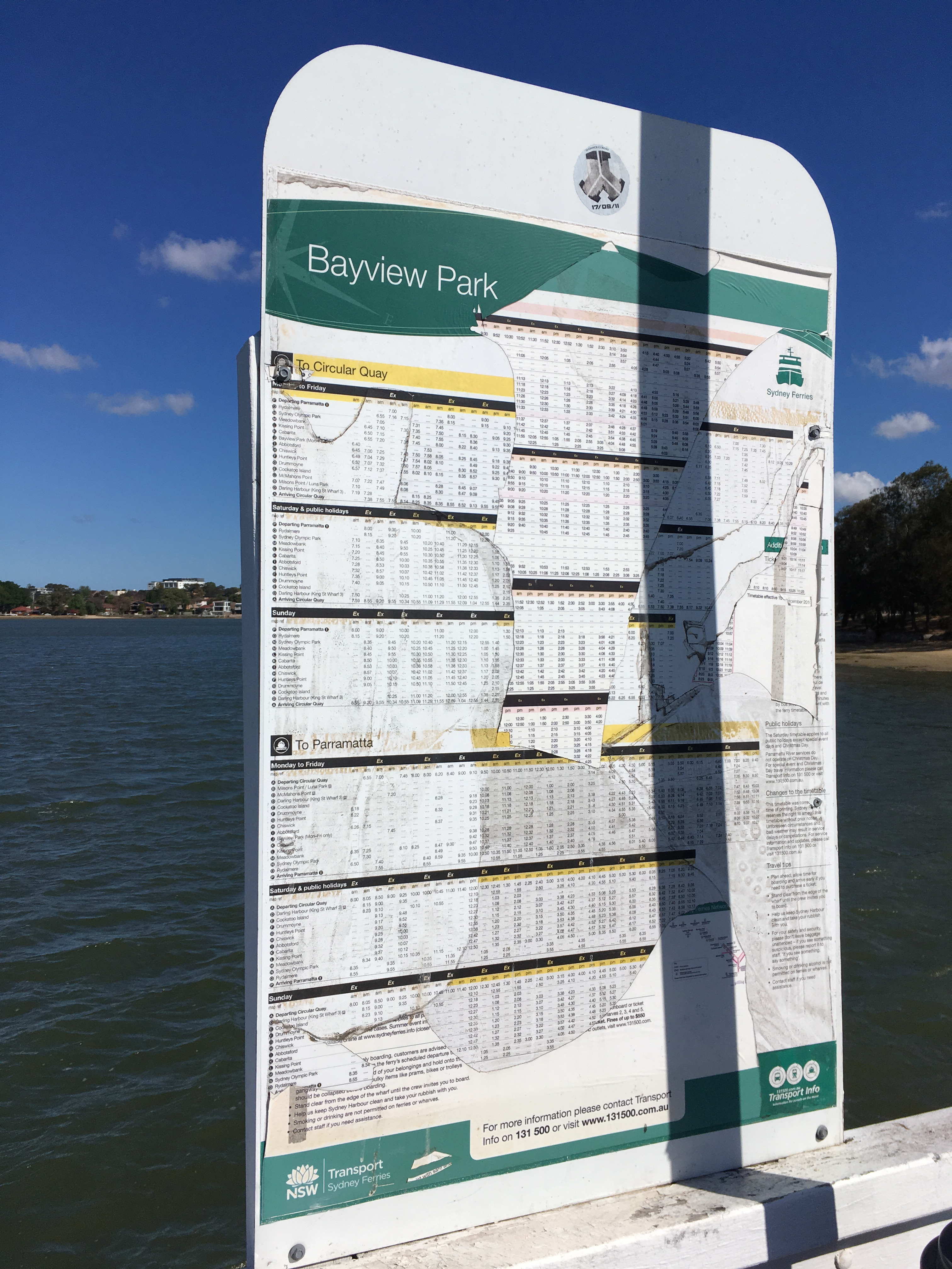 View of the old timetable board at the Bayview Park ferry wharf, as it was in October 2017. The board is in poor condition, with the last two timetable iterations from October 2011 and November 2010, visible at the same time through tear and wear.